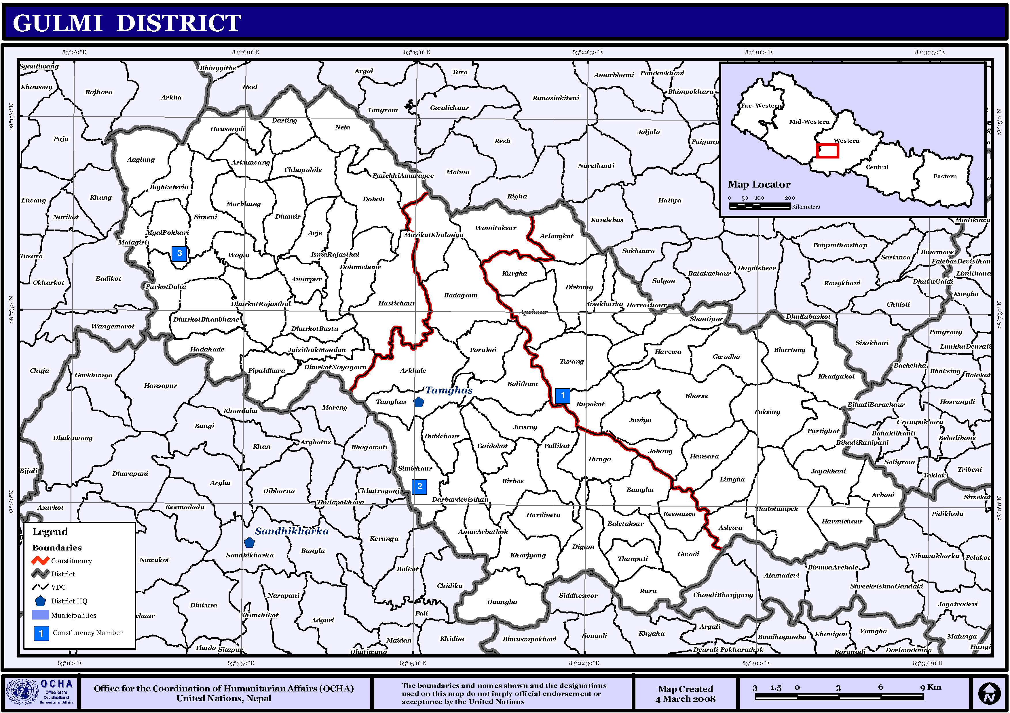 Map displaying Village Development Committees in Gulmi District, Nepal